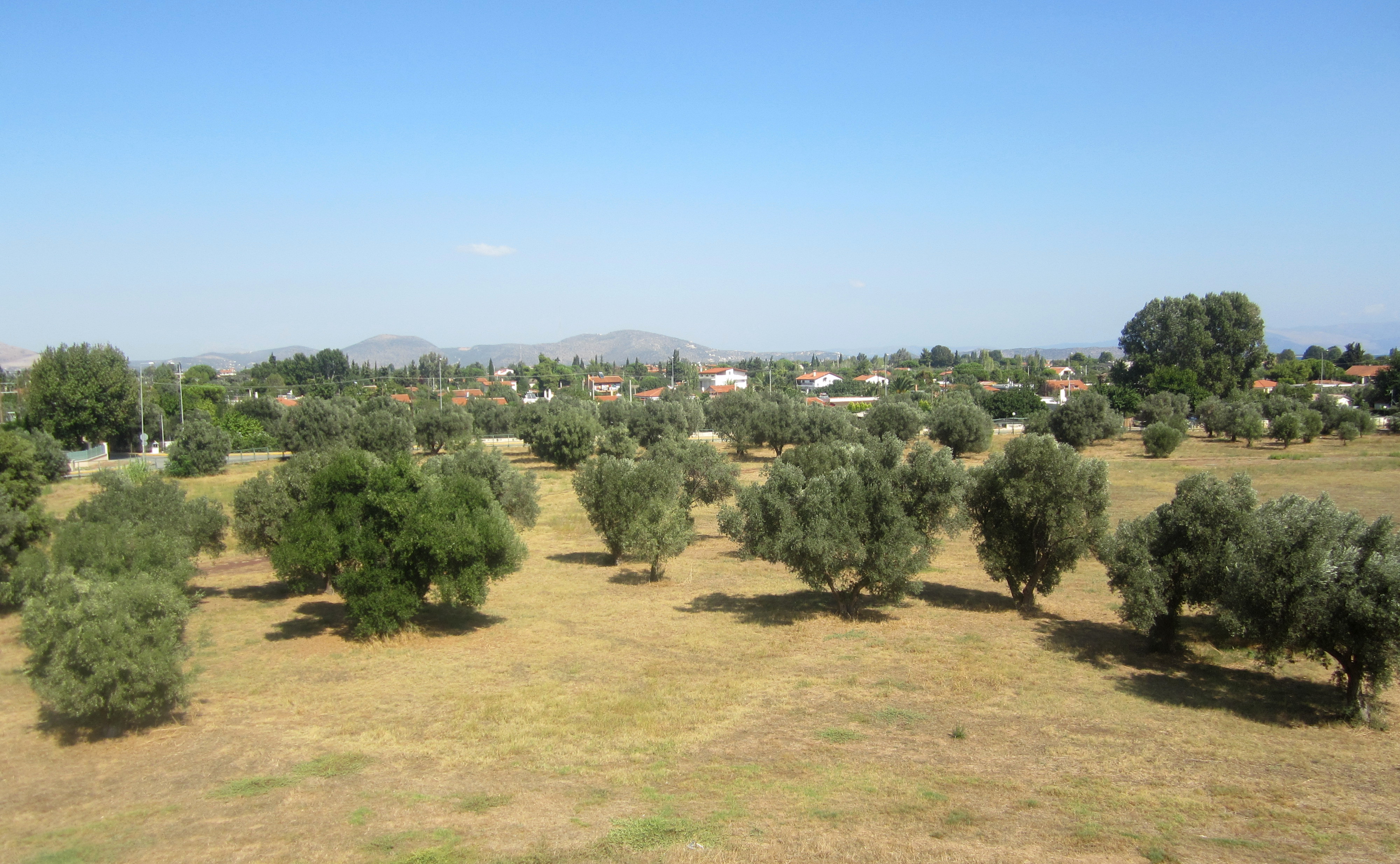 Agios Panteleimonas village seen from the top of the Tomb of the Athenians. Marathon (Marathonas), Attica, Greece.